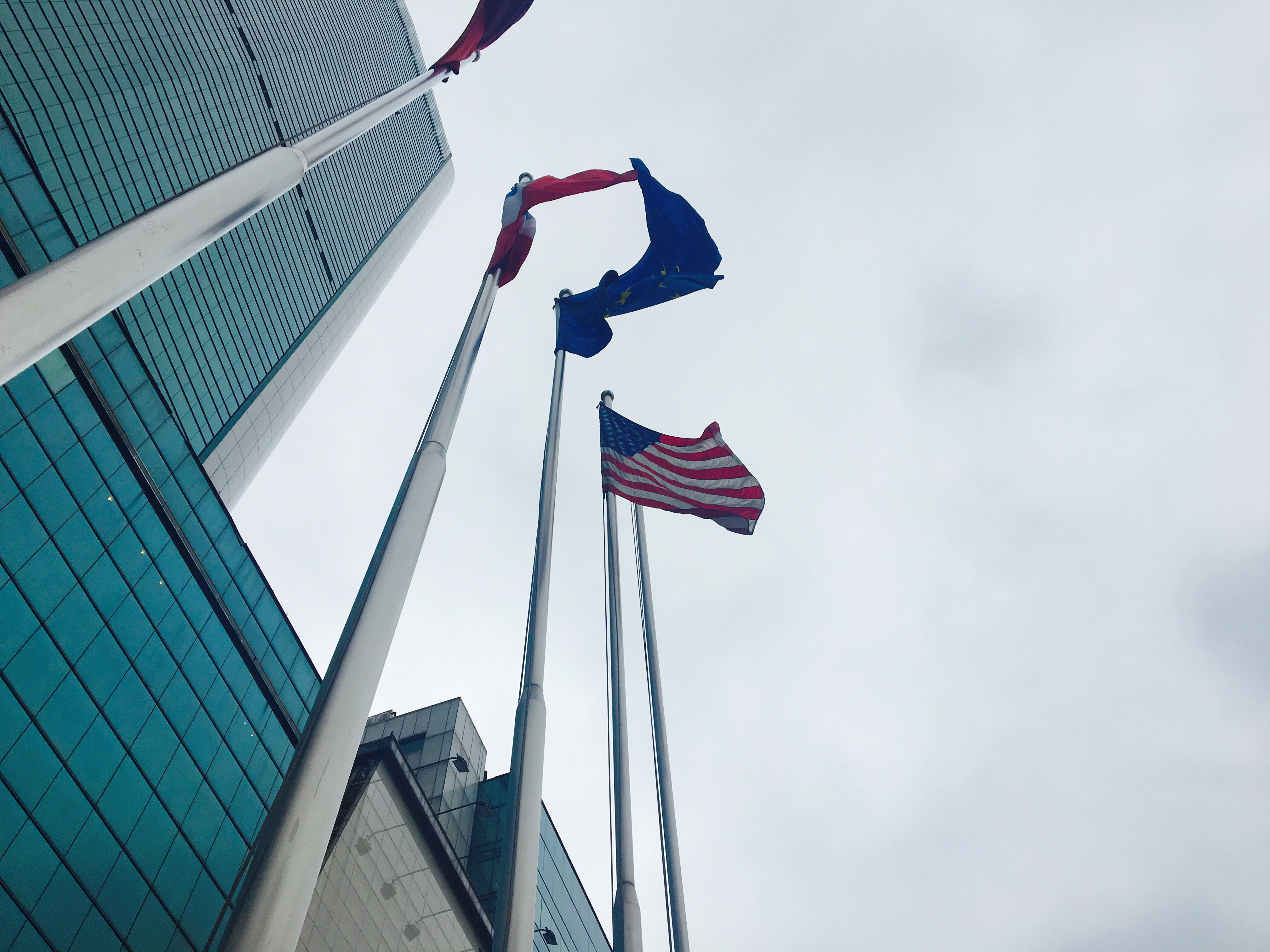 The Star-Spangled Banner waving in front of the Consulate-General of United States in Wuhan